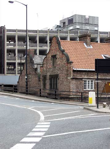 A view of the Holy Jesus hospital from a roundabout